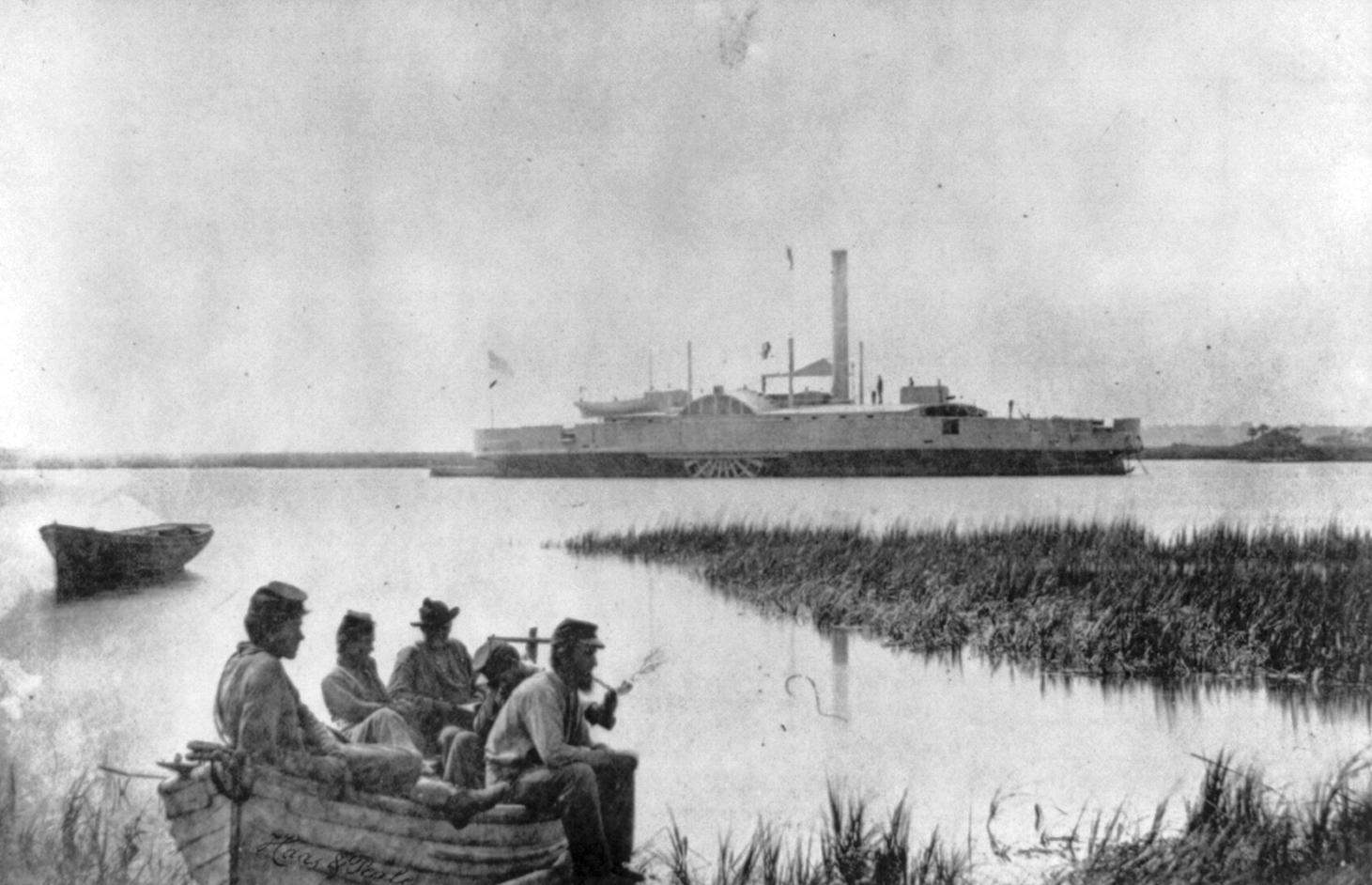 LC-USZ62-49371: U.S. Navy light-draft gunboat, USS Commodore McDonough, port view with Union soldiers sitting in a rowboat in the foreground, Hilton Head, South Carolina, 1863. Photograph by Hass & Peale. (6/12/2015).